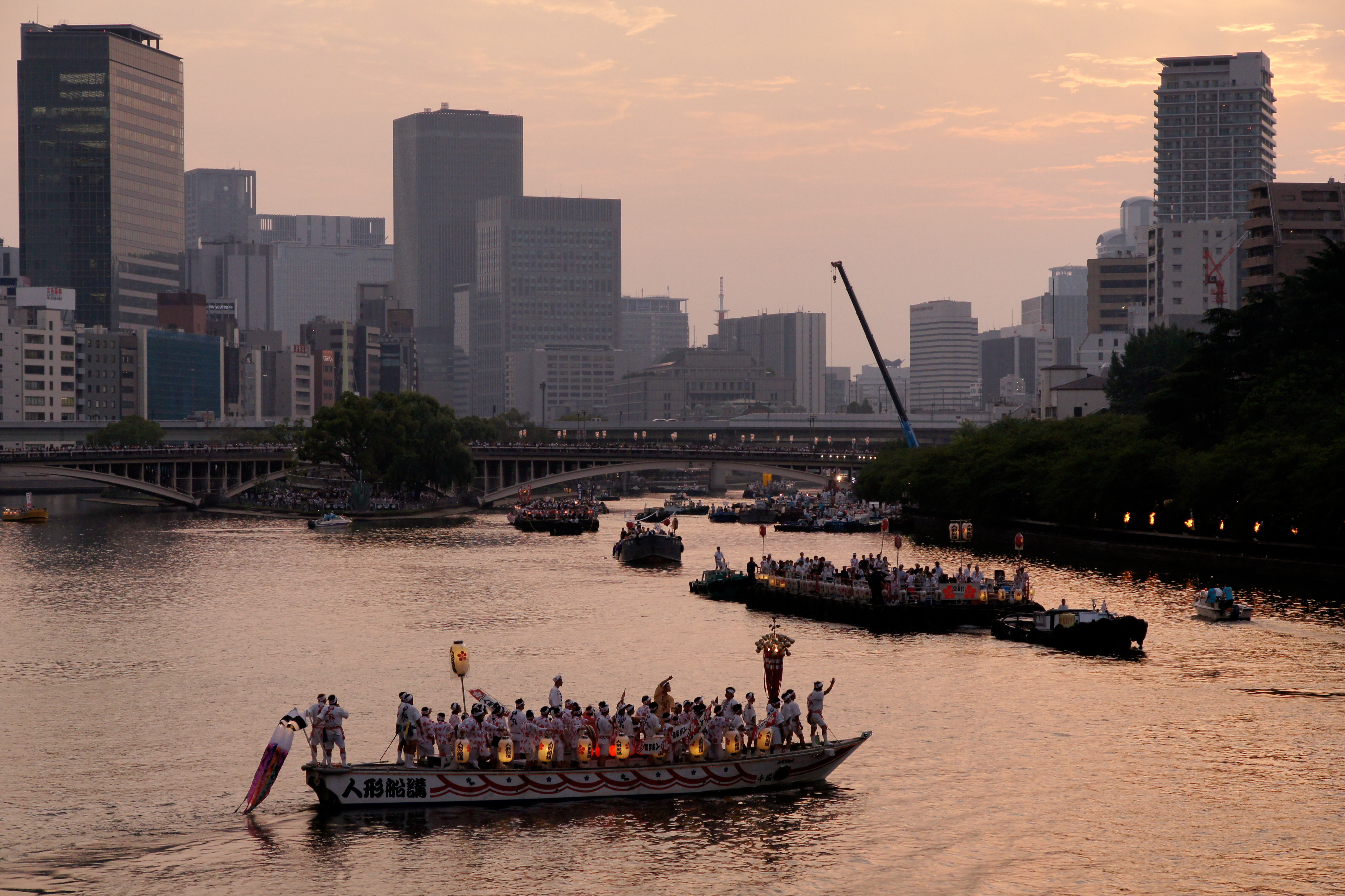 Osaka Tenjinmatsuri at Osaka, Osaka prefecture, Japan.